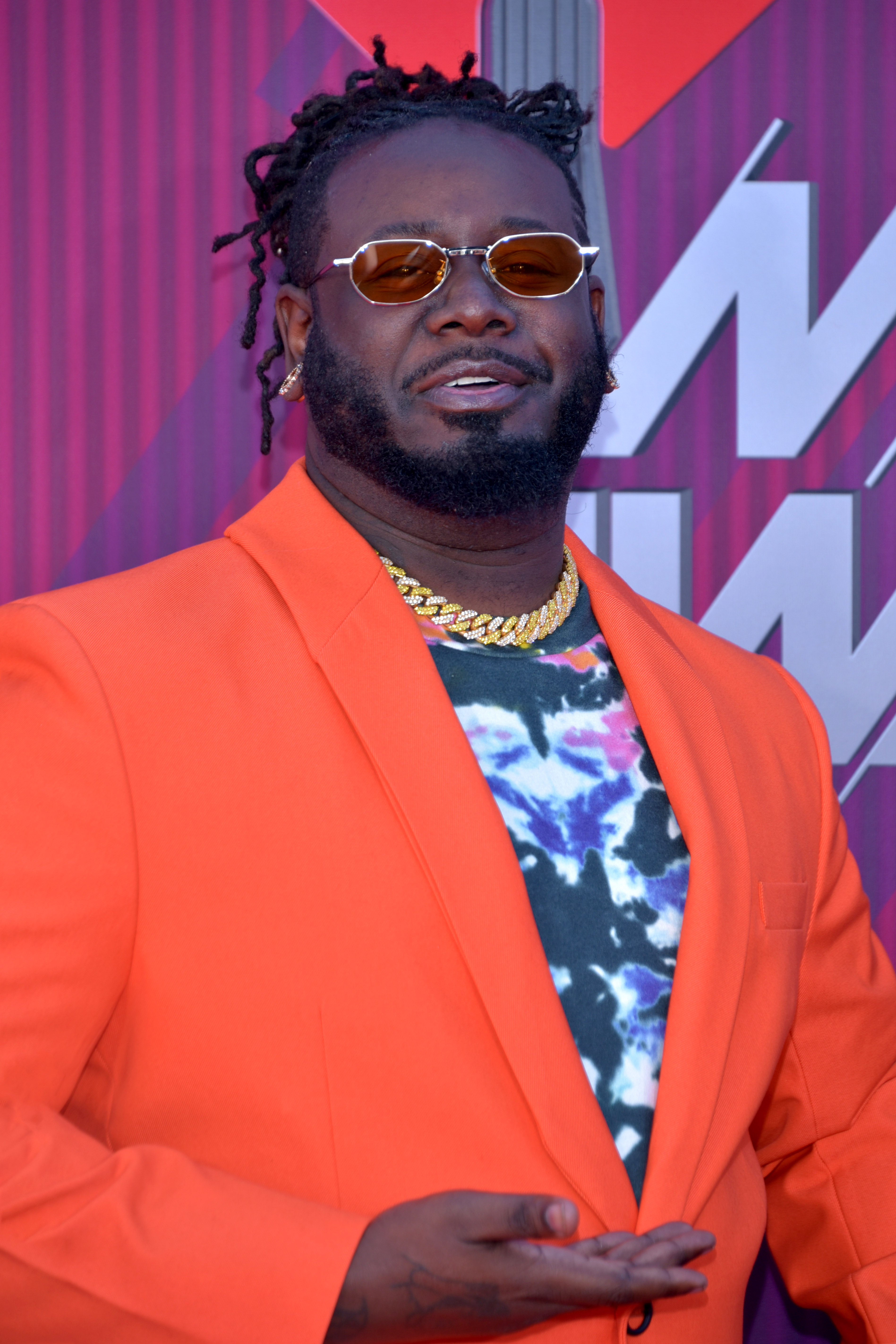 T-Pain at the iHeartRadio Music Awards on March 14, 2019 - photo by Glenn Francis of